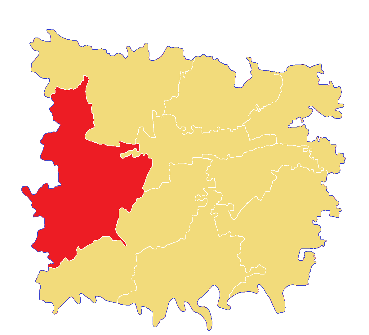 Location of Chilaura-Haldipur Union in Jagannathpur Upazila